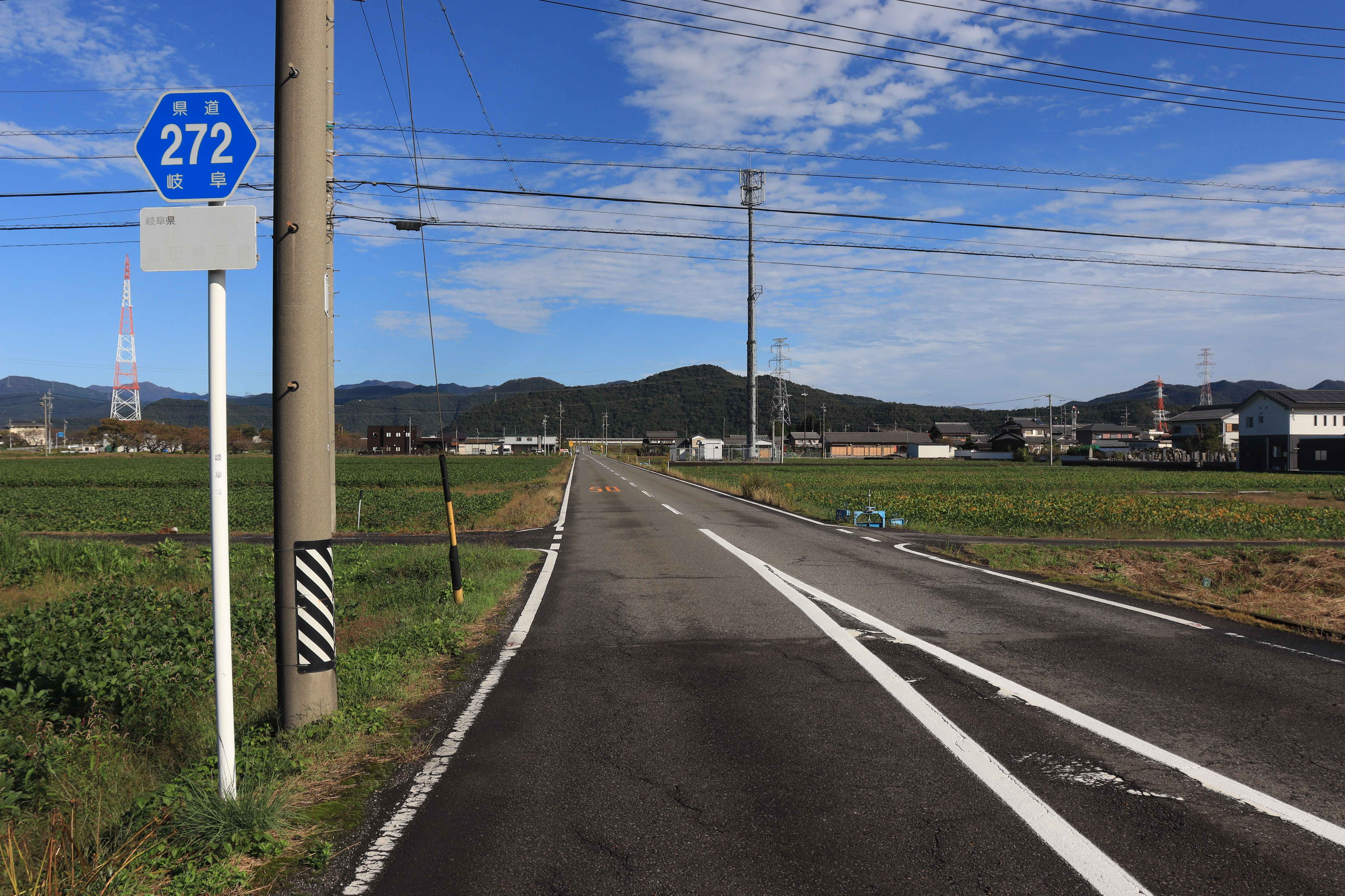 Gifu Prefectural Road Route 272 in Sugino, Ikeda, Gifu Prefecture, Japan.